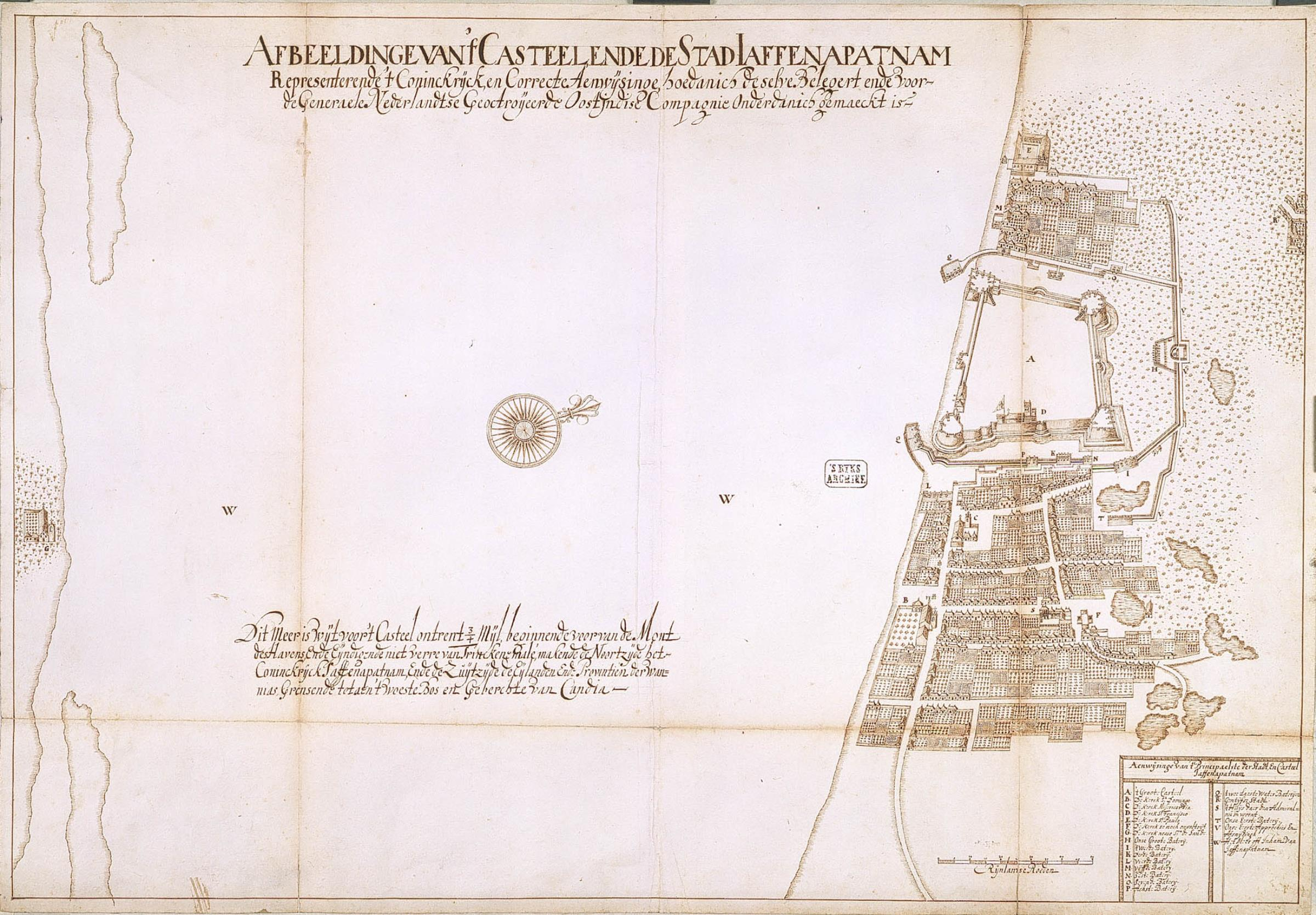 According to the Leupe catalogue (NA), the original title reads: Afbeeldinge van 't Casteel ende de Stad Jaffanapatnam, representerende 't Coninckryck in correcte aenwysing, hoedanich deselve belegert en voor de Generaele Nederl. Geoctr. Oost-Ind. Comp. onderdanich gemaekt is. Notes on reverse: 39 OBP Ceilon portefeuille II nr. 585a [folio nr.?].